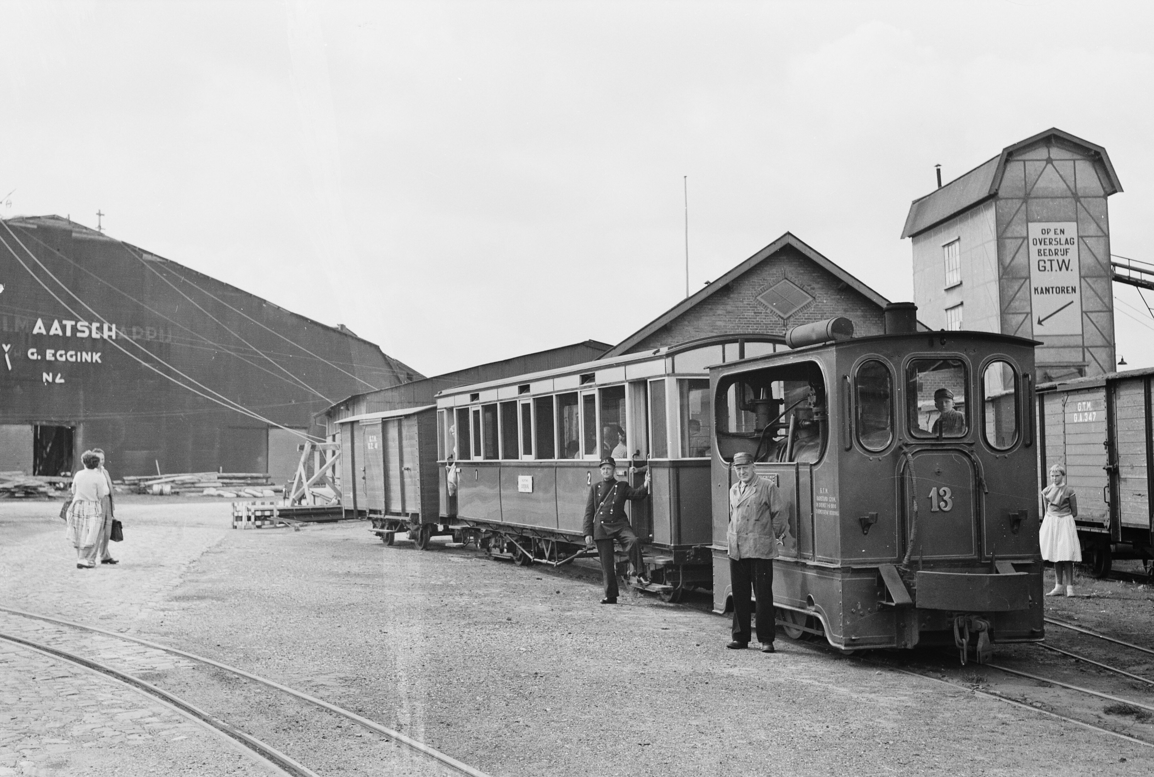 The steam tram between Doetinchem and Doesburg departs for its last trip on 31st august 1957. Here shown in the GTW-depot in Doetinchem.